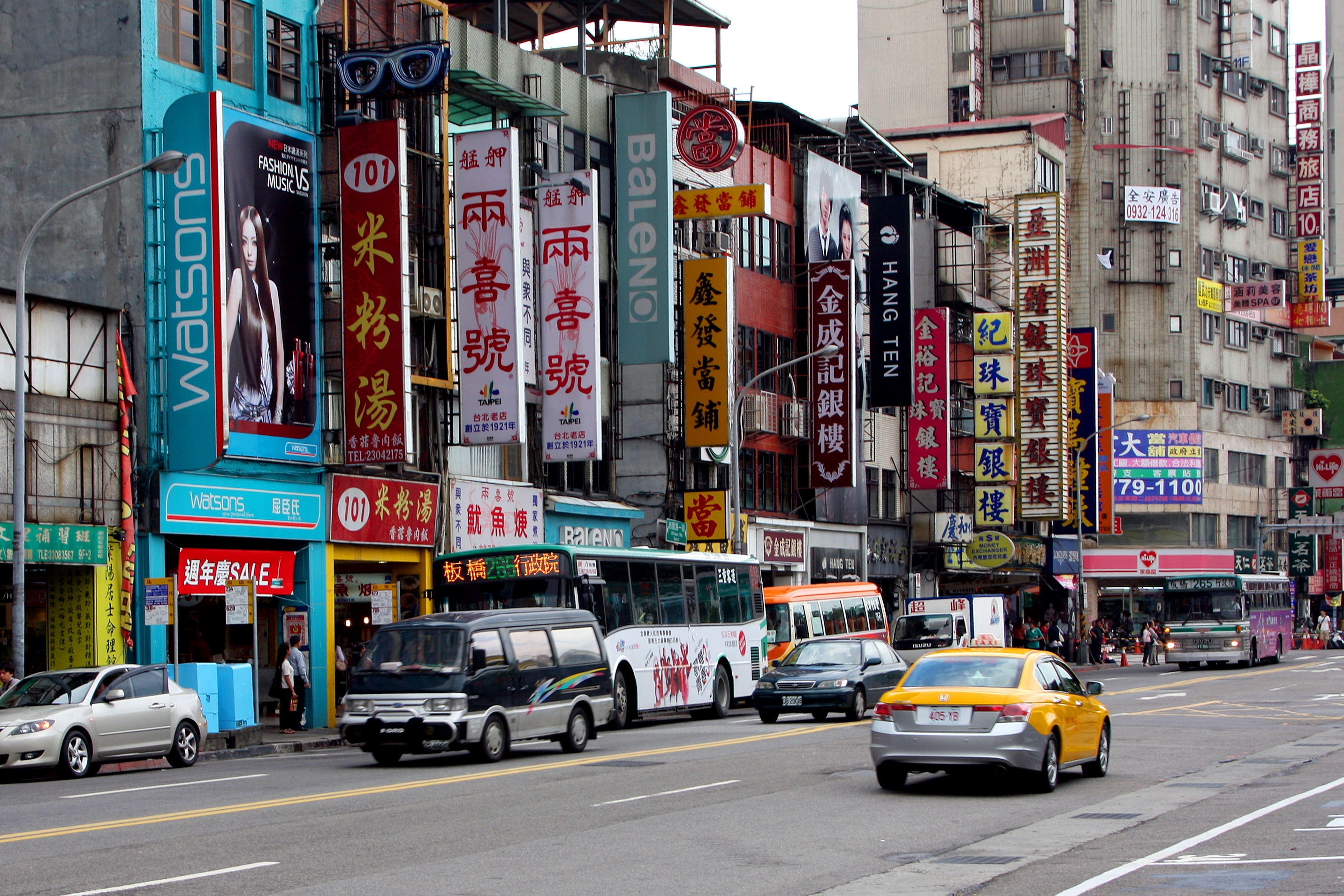 Street scene of Xiyuan Road Section 1, Wanhua District, Taipei City.